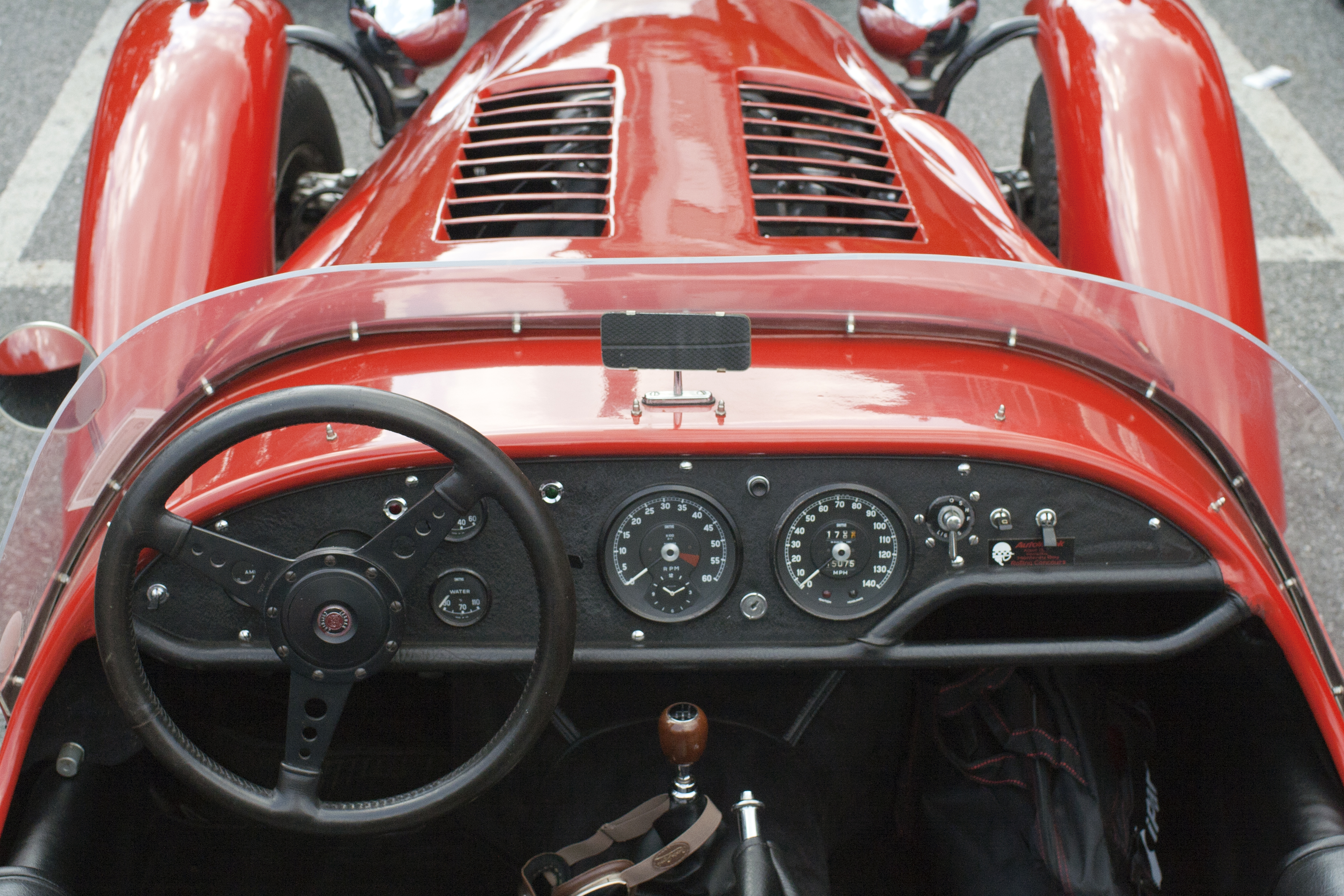 Dashboard of a 1979 Kougar Sports 3.8 Liter Roadster, chassis number P1B52479DN. Originally belonged to Road & Track editor Tony Hogg, and then to David E. Davis, Jr. Sold one week earlier (at the June 3, 2012 Bonham's Auction at the Greenwich Concours d'Elegance) and currently titled as a "1965 Jaguar".